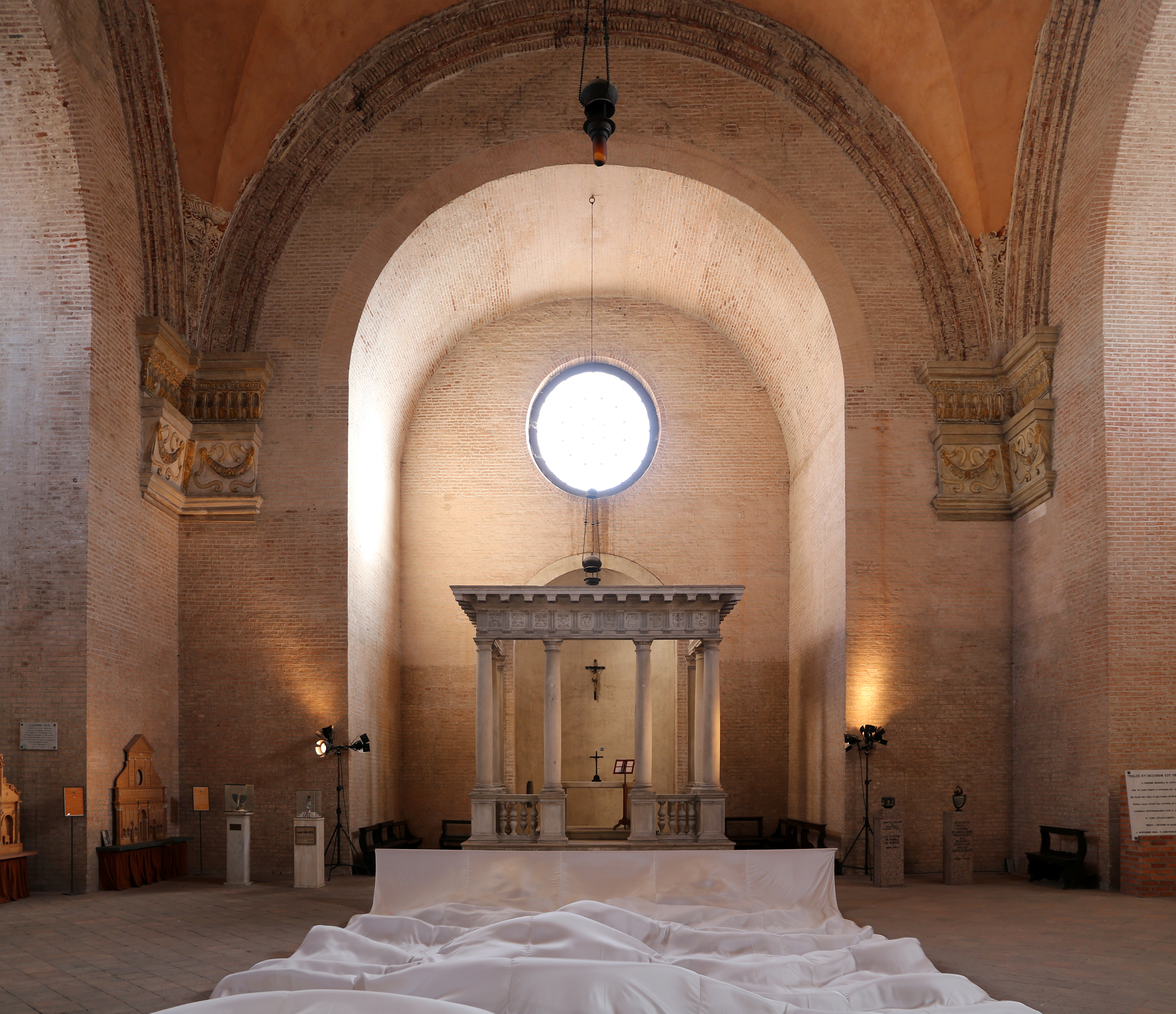 San Sebastiano (Mantua)